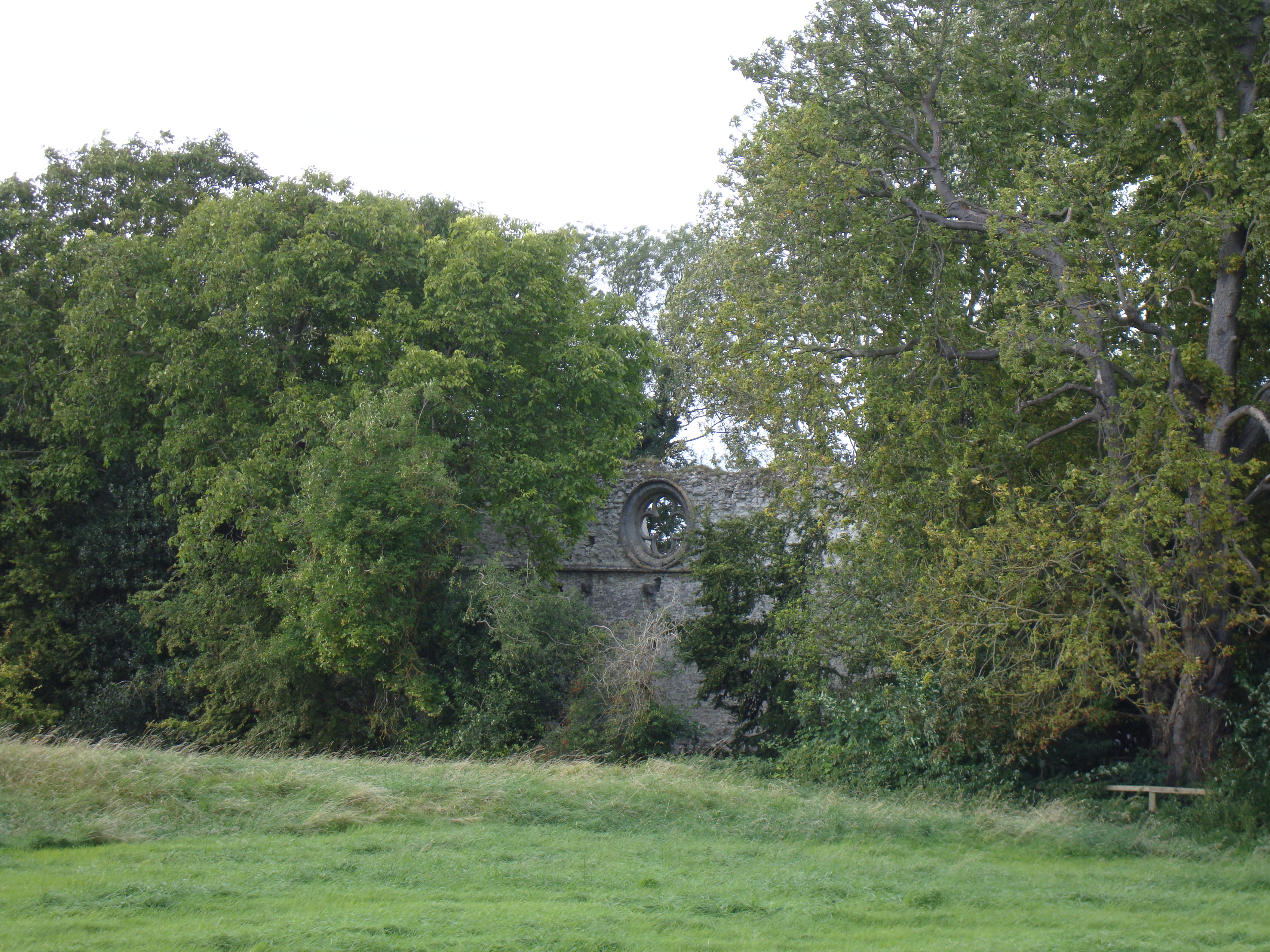 Photograph of the Remains of Marham Priory, Norfolk, England